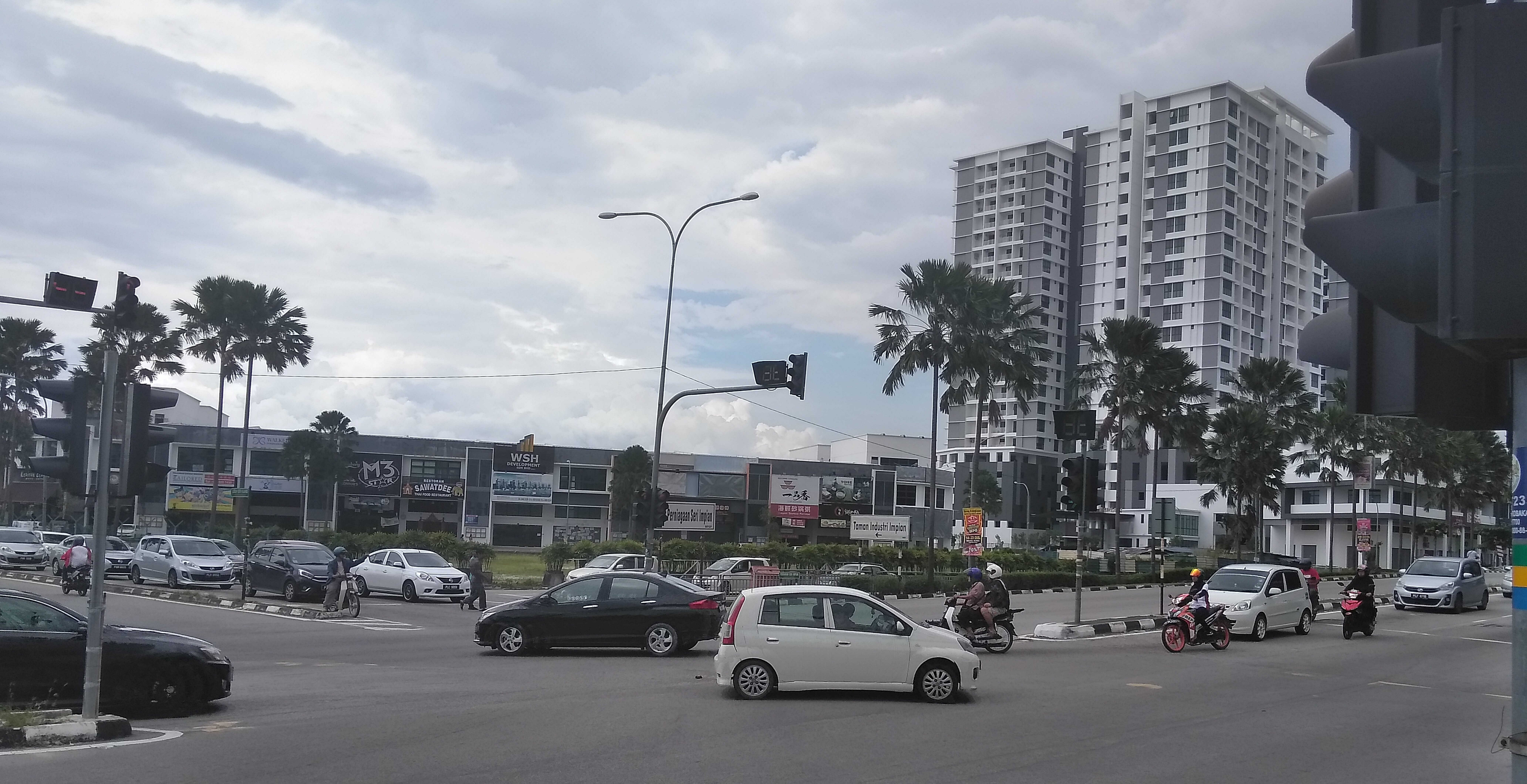 Jalan Rozhan and Pusat Perniagaan Seri Impian